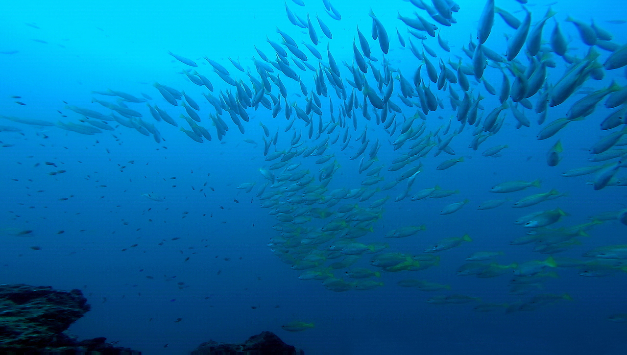 A school of Bigeye Snapper (Lutjanus lutjanus) in the south shore of Long-Dong Bay, a famous scuba diving site located at northeast coast of TAIWAN. This photo was taken by Vincent C. Chen on Sep. 12, 2015